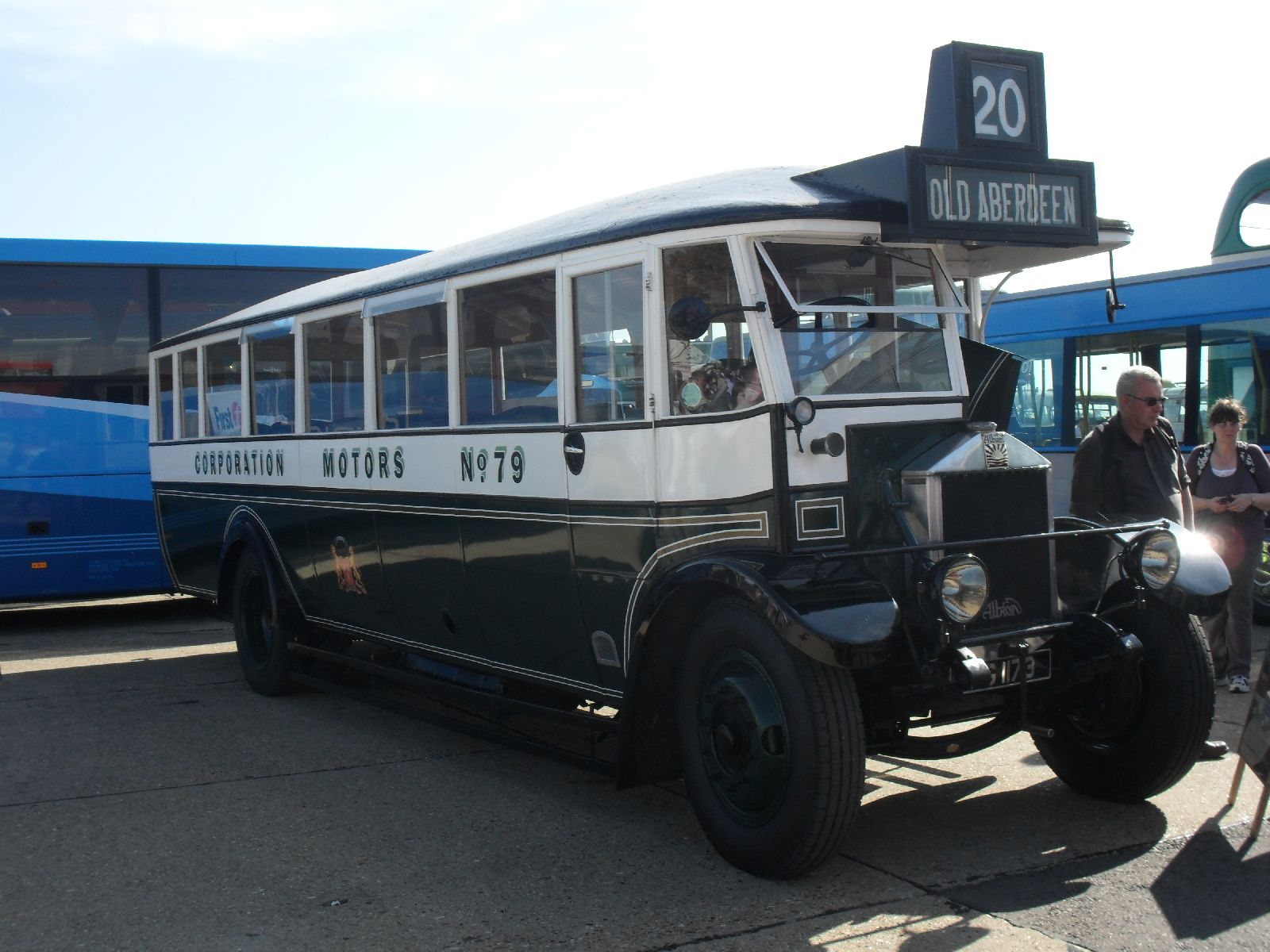 Walker bodied Albion PMA28 bus, built 1930, reg. RG 1173